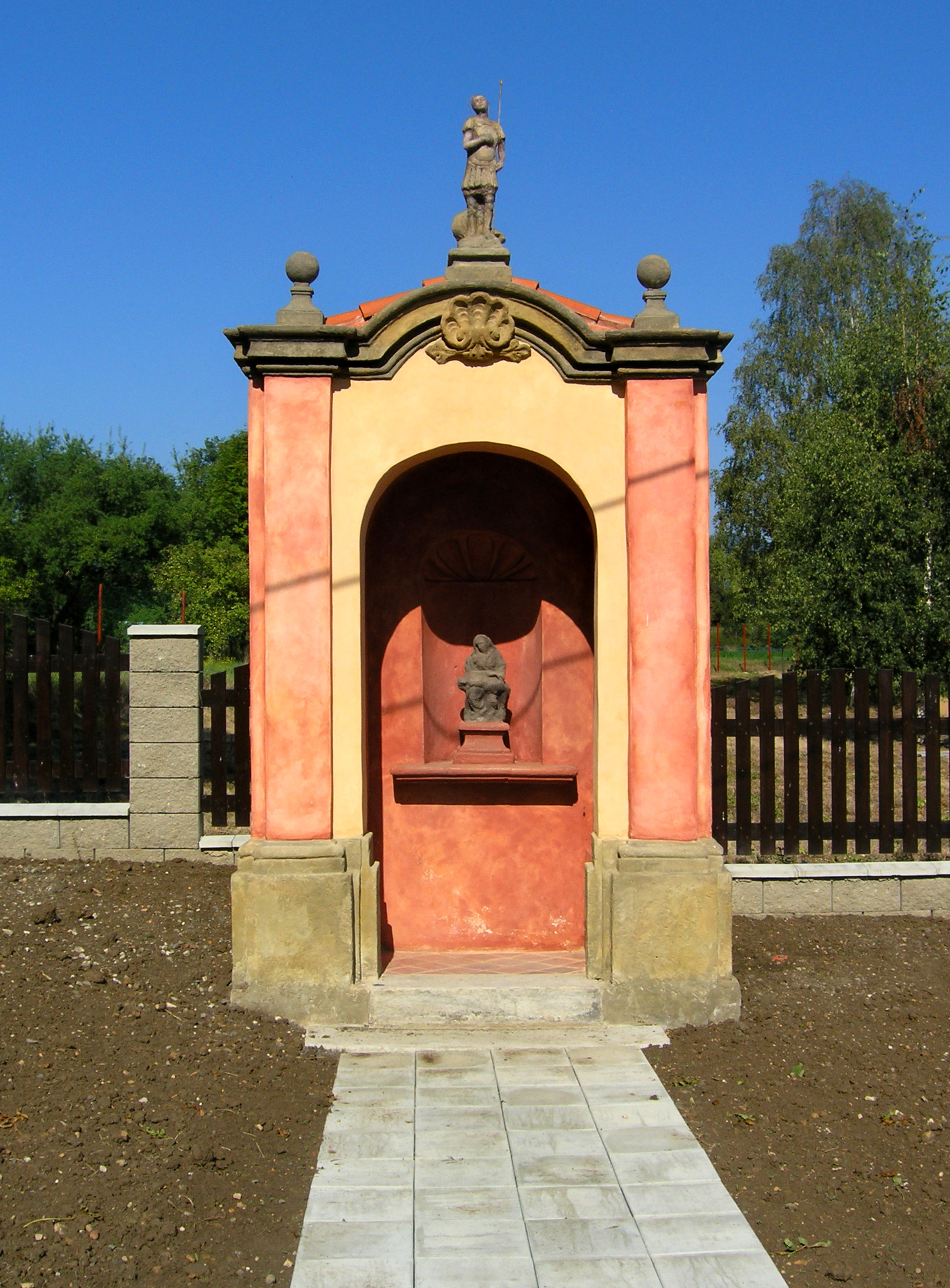 Chapel in Býčkovice, Czech Republic